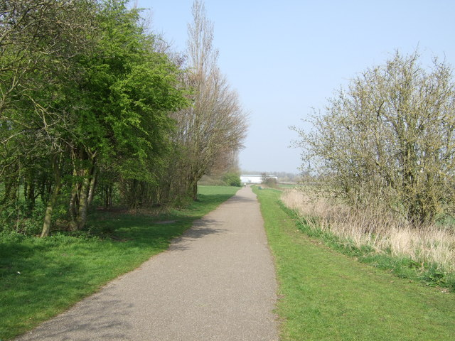 Photo of the trail at Widnes